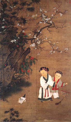 A painting by the Song Dynasty Chinese artist Su Hanchen (active 1130s–1160s) of two children waving a peacock feather banner like the one used in Song Dynasty dramatical theater to signal the acting general or leader of troops. If not displayed in the home of a wealthy gentry figure, this painting could very well have been an art piece of the royal family's residence in Hangzhou.